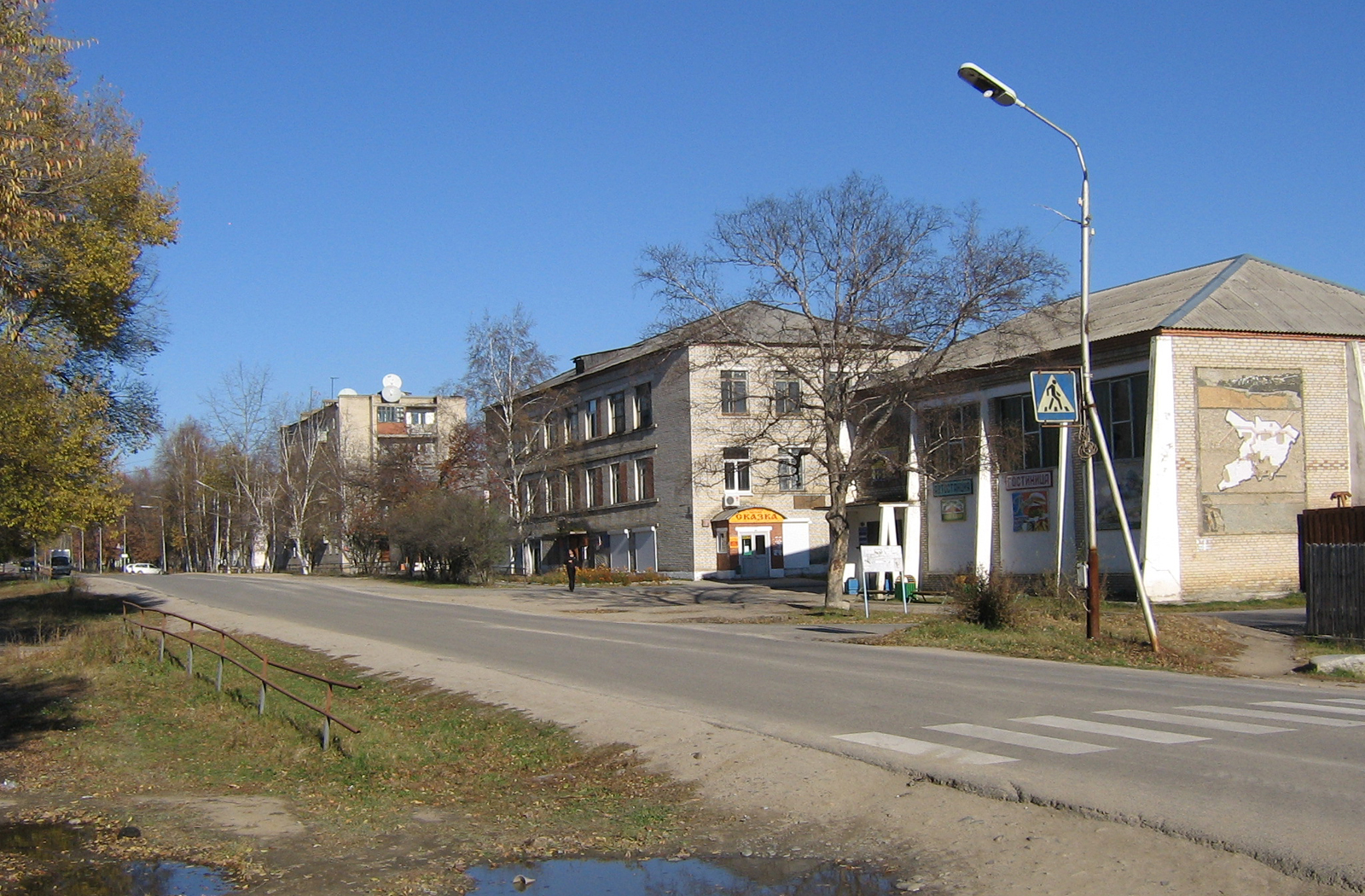 Lazo town, Primorsky region